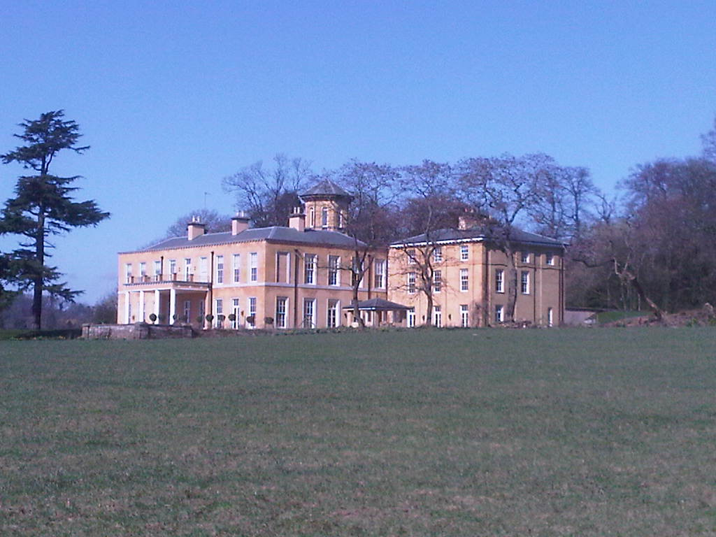 The restored Barrells Hall from Barrells Park